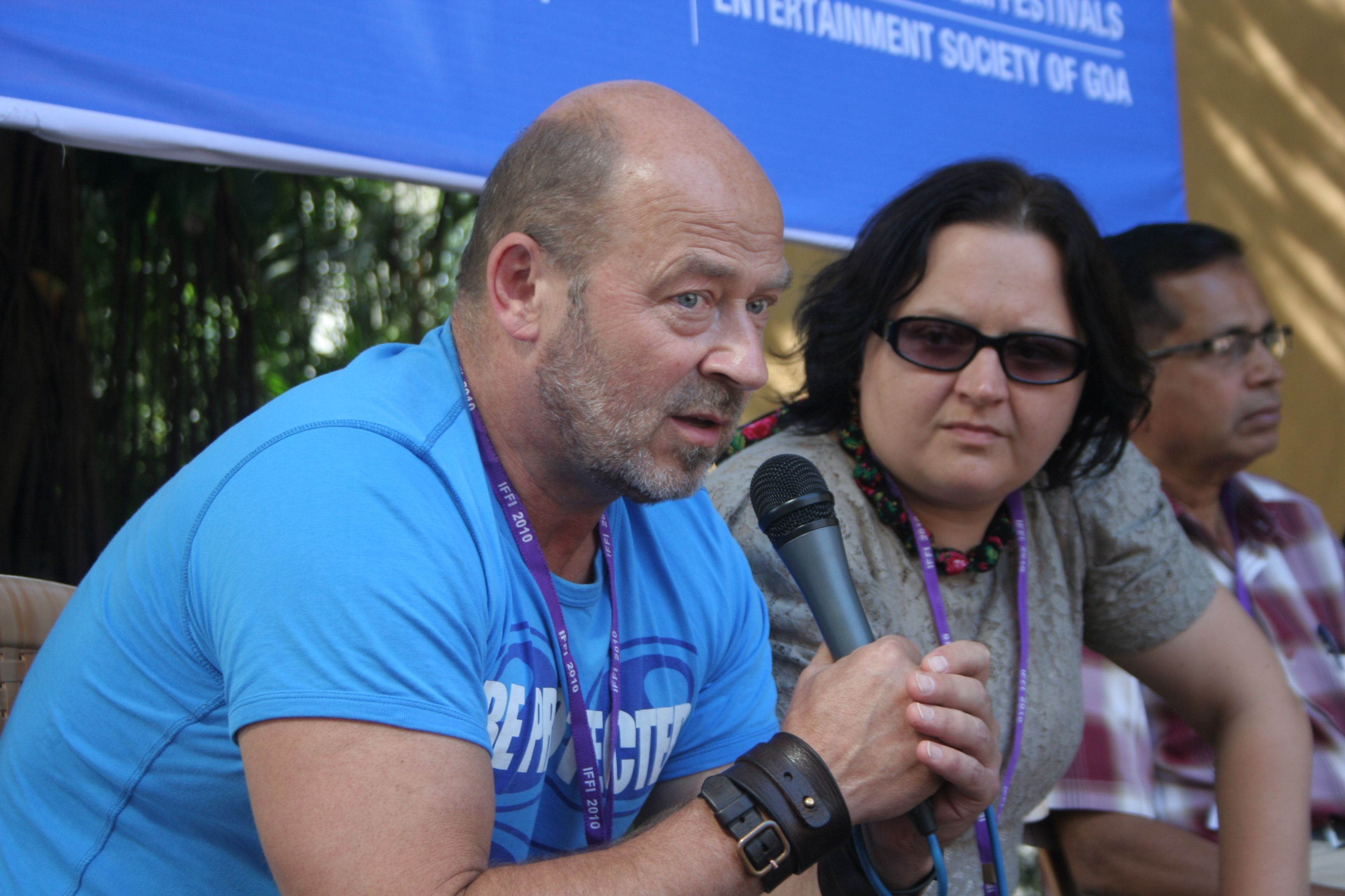 Jan Jakub Kolski, Polish Filmmaker at the Open Forum held during the 41st International Film Festival of India, Goa in November 2010